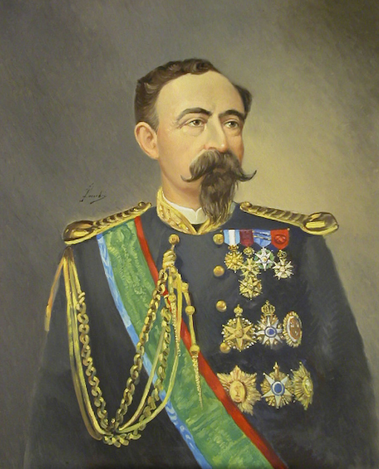 Januário Correia de Almeida (1829-1901), Baron, Viscount, and then Count of São Januário.